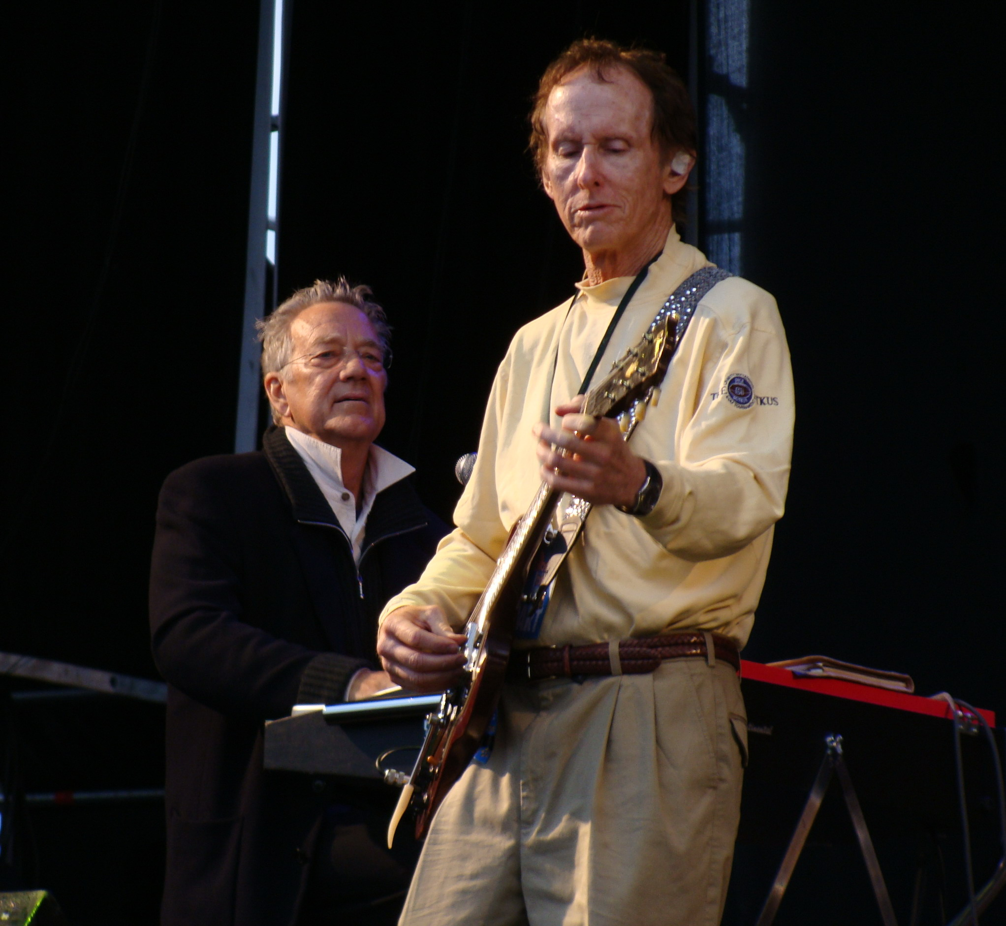 Riders on the Storm performing at Bilbao BBK Live, 2008-07-06